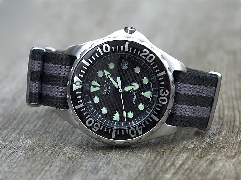 Citizen Promaster Eco-Drive BN0000-04H Diver's 300 m (tool watch suitable for scuba diving) on an aftermarket NATO strap featuring a "James Bond-style" black and gray stripe pattern. Solar cells located located under the dail provide power for the watch movement. The E168 caliber Eco-Drive movement used in this watch can run for 180 days on its secondary power cell before it needs light exposure for recharging. The movement has a ± 15 seconds per 30 days accuracy specification (within a normal temperature range of 5°C/41°F to 35°C/95°F). NATO Stock Number (NSN) 0883-99-852-5953.